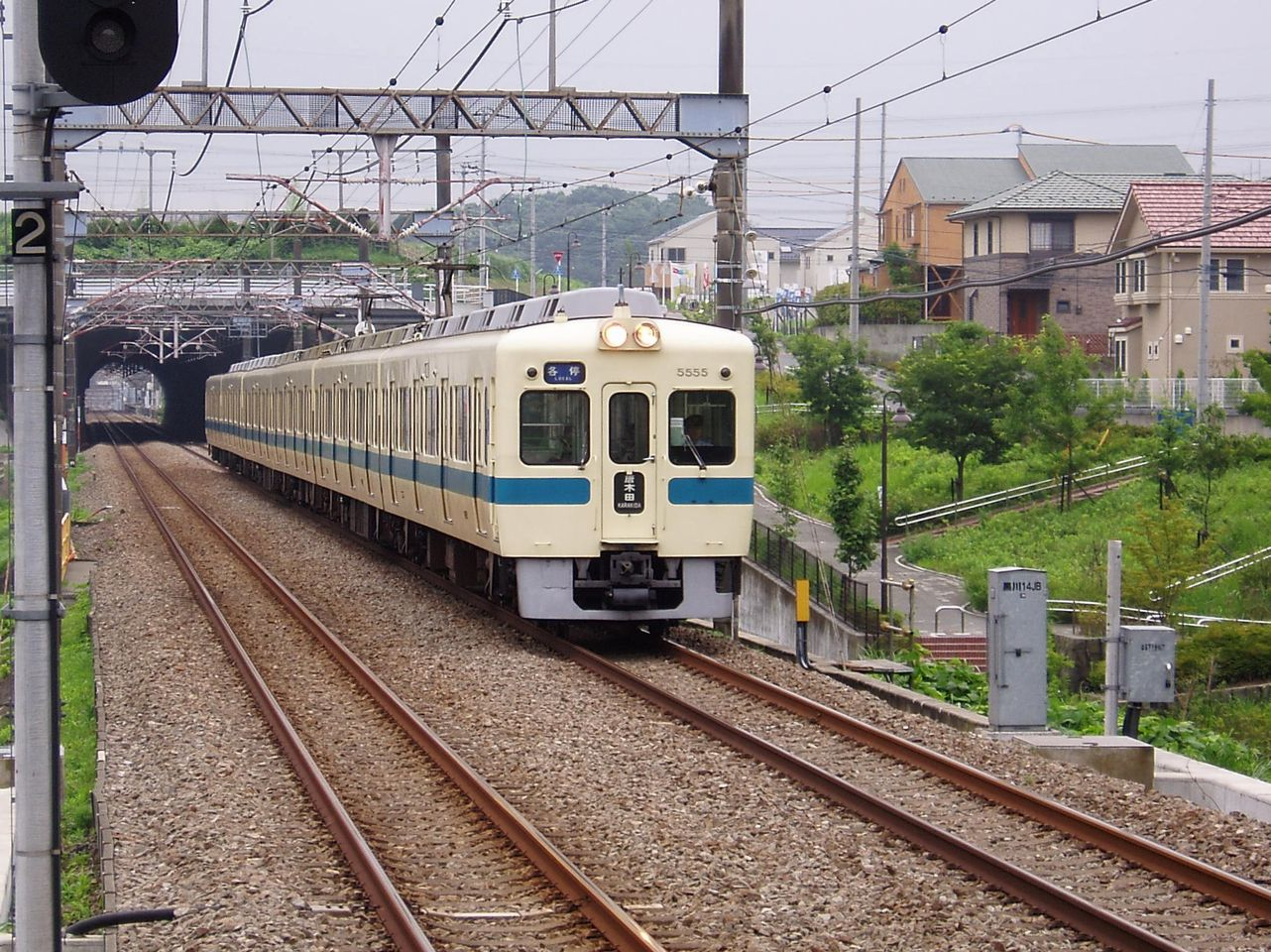 Odakyu Electric Railway Company, EMU Type 5000(Formation on 5255) At between Kurokawa Sta. and Haruhino Sta.